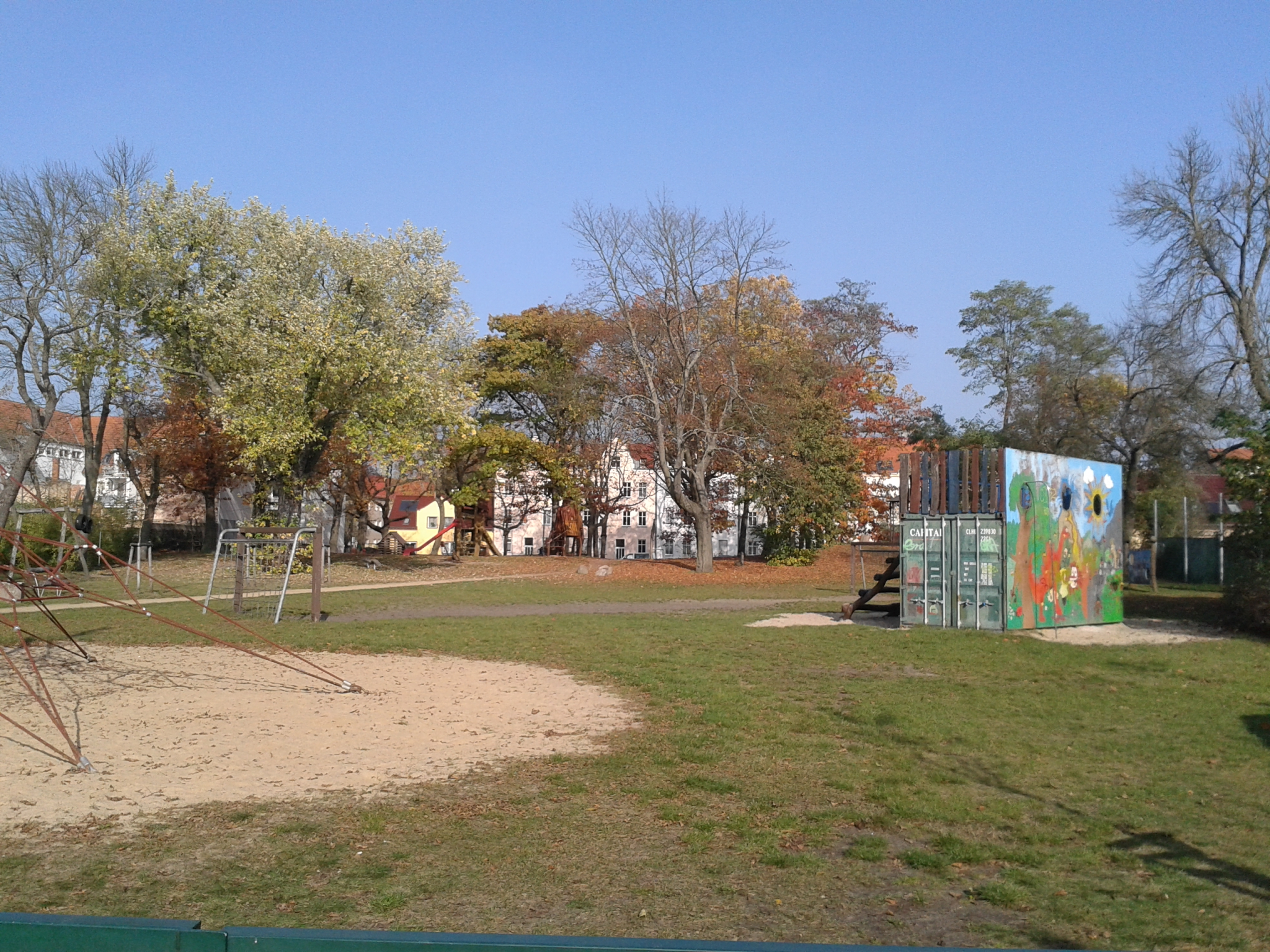 The old mill hill (Mühlenberg) in Fuerstenwalde is now a great playground.